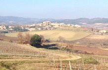 Village of Ajac and surrounding area